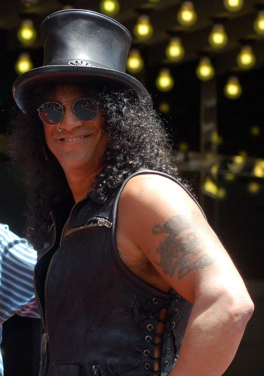 Slash at a ceremony to receive a star on the Hollywood Walk of Fame.